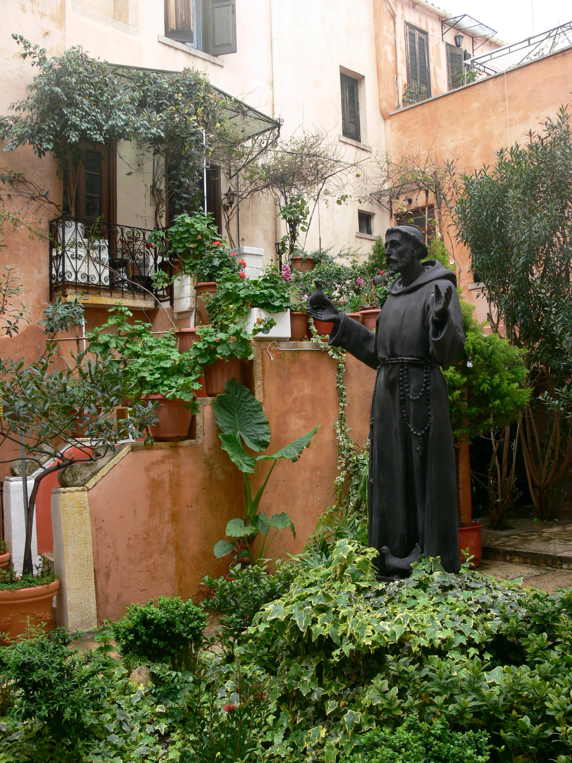 Catholic church of Chania ( Crete ). Church yard with statue of Francis of Assisi.